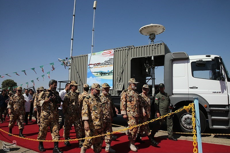 Mohajer-4 Ground Control Station (GCS) seen in the rear of this picture.